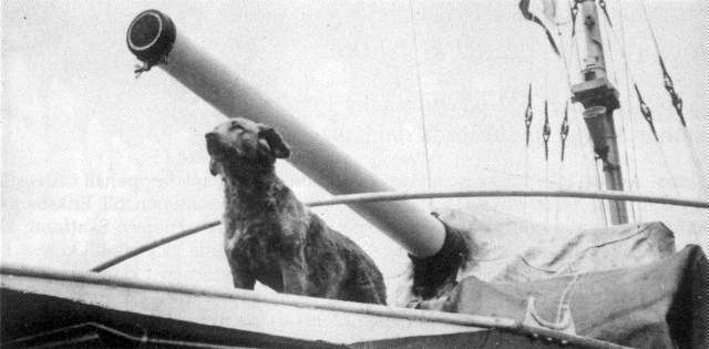 Swedish HMS Romulus shipsdog "Spica". Mixed breed, famous for recognizing the ships crewmembers.